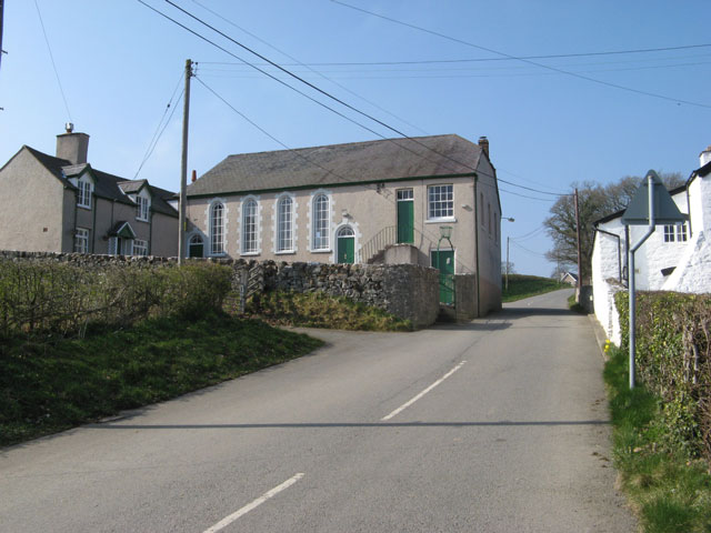 Chapel and house The chapel at Prion is a very plain building, but beautifully maintained with its adjacent house.